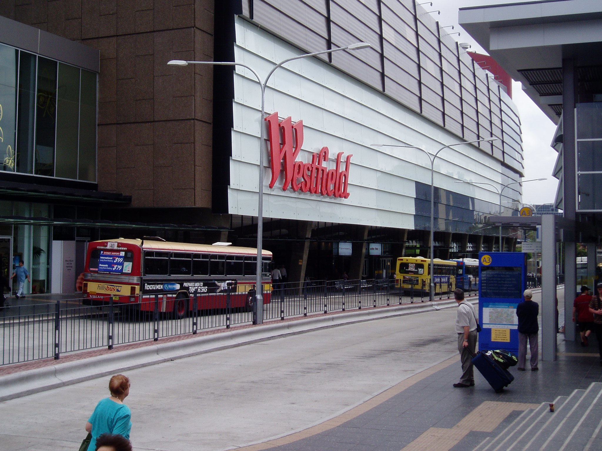 Westfield Parramatta, as seen from the bus stand at Parramatta Station on October 6 2006.